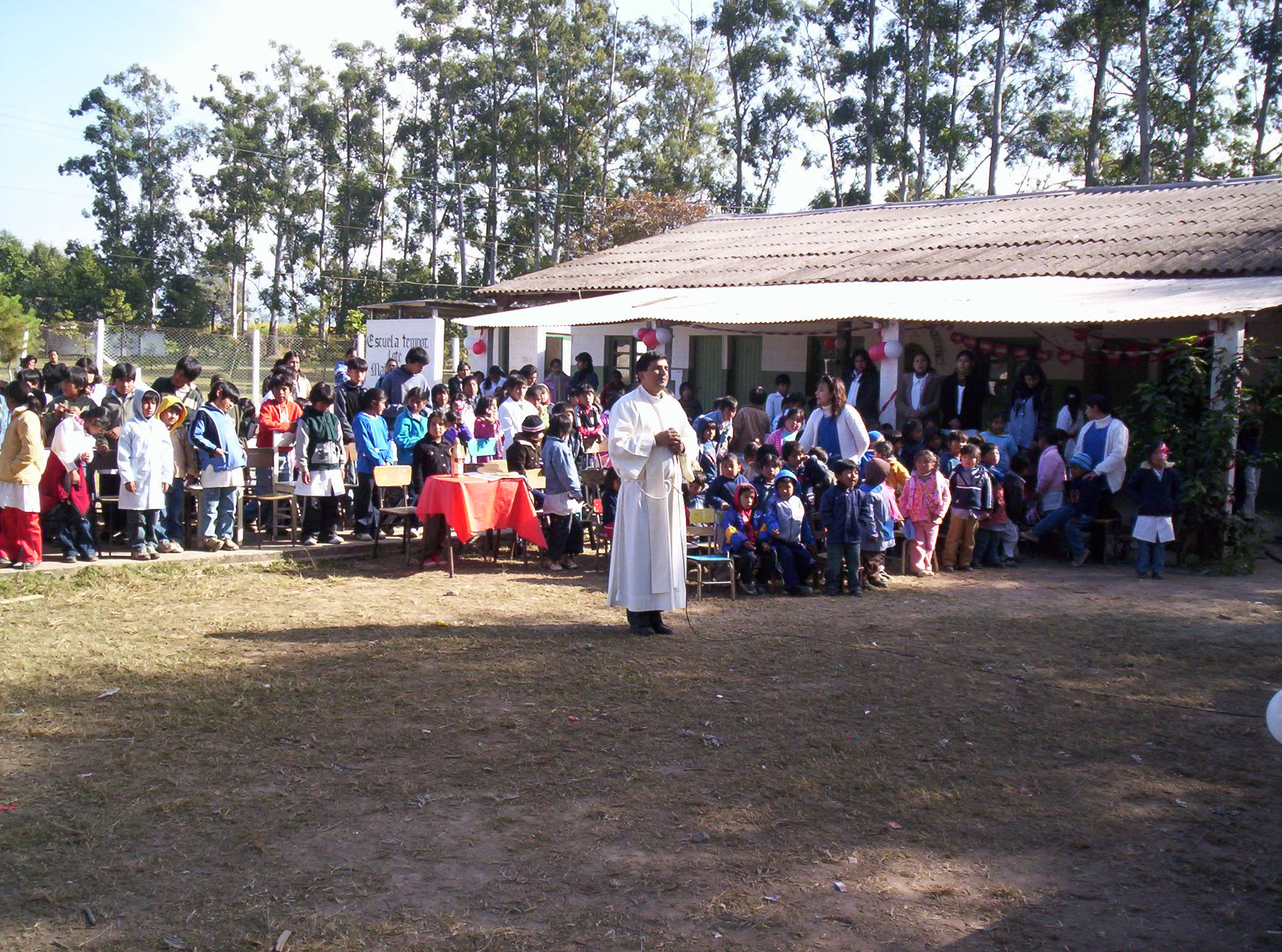 Escuela 644, Fraile Pintando, provincia de Jujuy